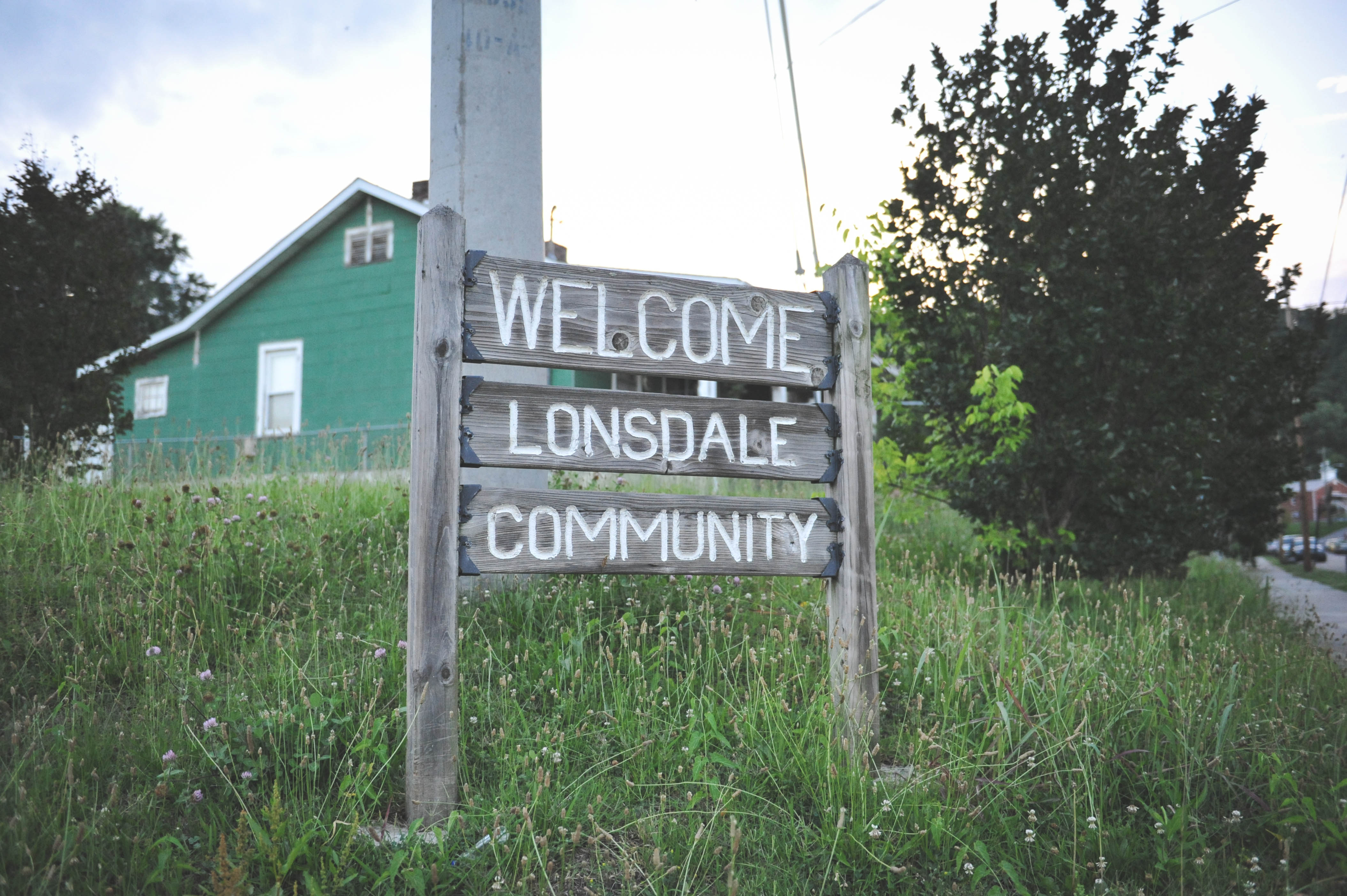 The entrance sign to the Lonsdale neighborhood on Heiskell. Photo taken by Andrea Spidell for Thrive Lonsdale.